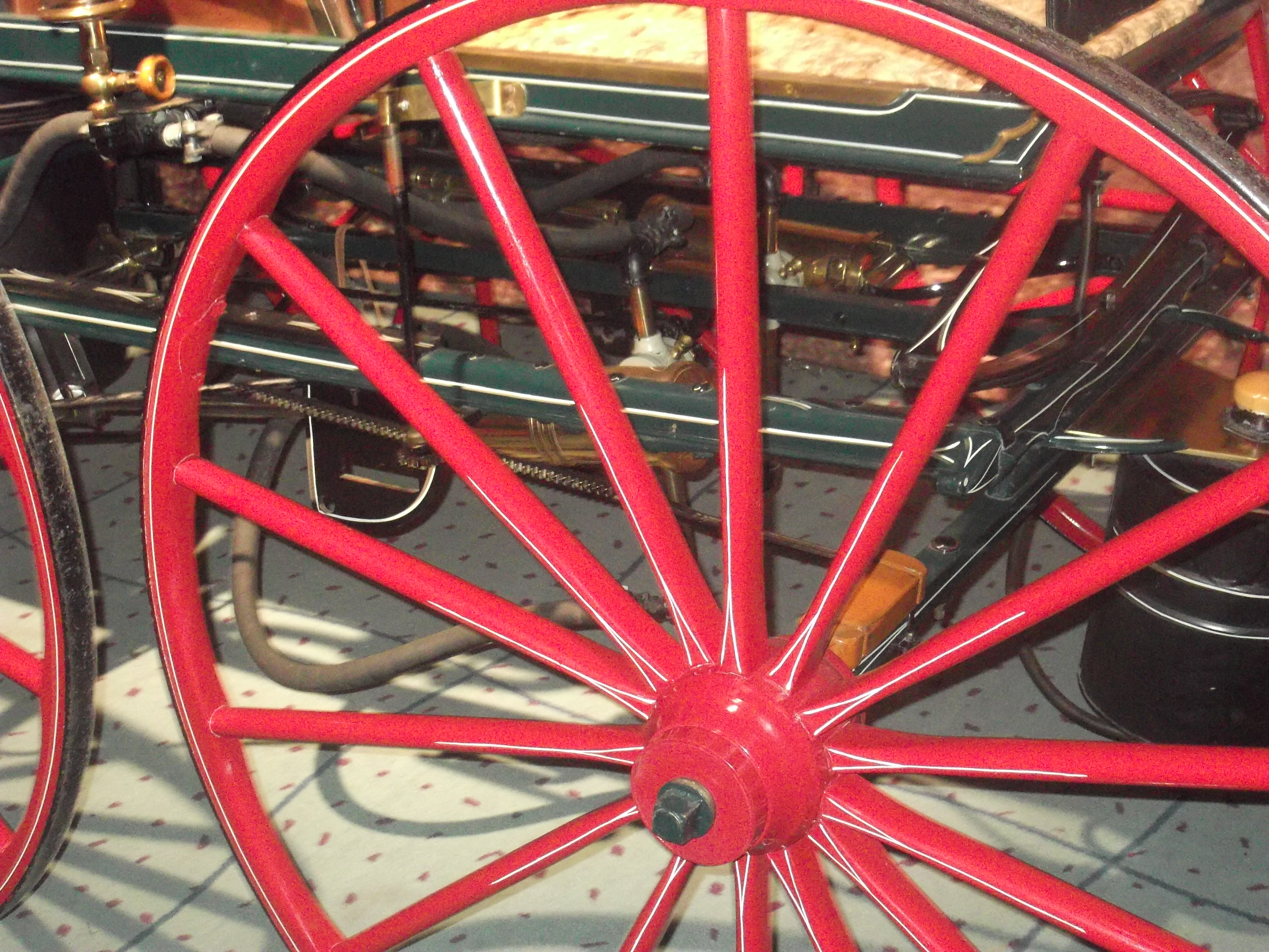 Detail of the wheel and some of the hoses that connect to the boiler.